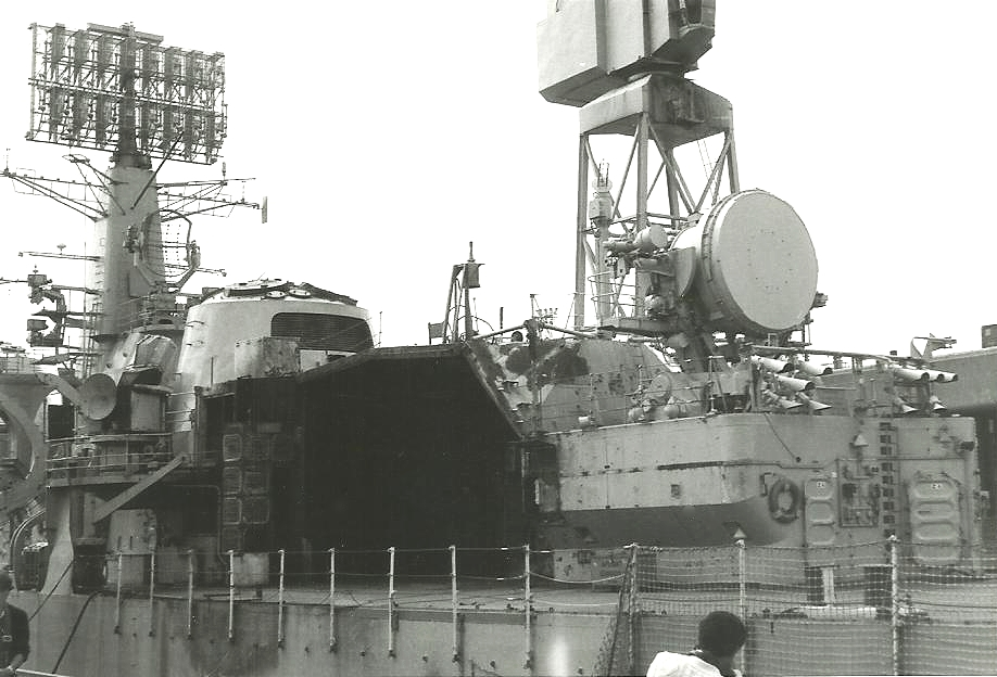 "County" Class (Batch 2) Destroyer "HMS Glamorgan", 6,200 tons, launched 1964, commissioned 1966. She is undergoing a refit on return from the Falklands War. The extensive damage to the aft superstructure and hanger was caused by a direct hit from an Argentine Exocet missile. She had also suffered earlier underwater damage from two bombs dropped from three IAI Dagger fighter-bombers. At the Portsmouth Navy Day, 08/82. Scanned photograph taken with a Canon AE-1 Program.